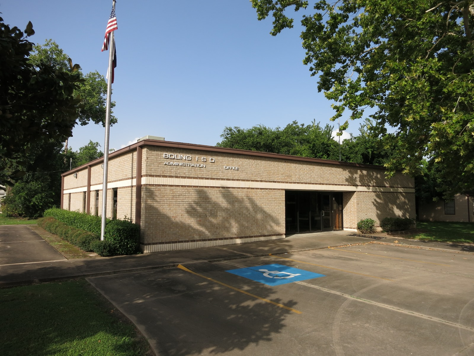 Photo shows Boling Independent School District Administration Building at Maryland Street and Texas Avenue in Boling-Iago, Texas. View is toward the east.